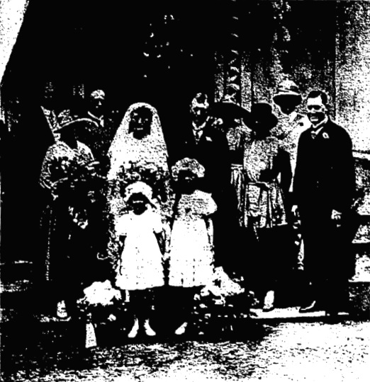 Wedding of Mr. R. O. Hutchison, M.B.E., and Miss R. B. Jupp at St John's Cathedral, Hong Kong, on 25 September 1919.